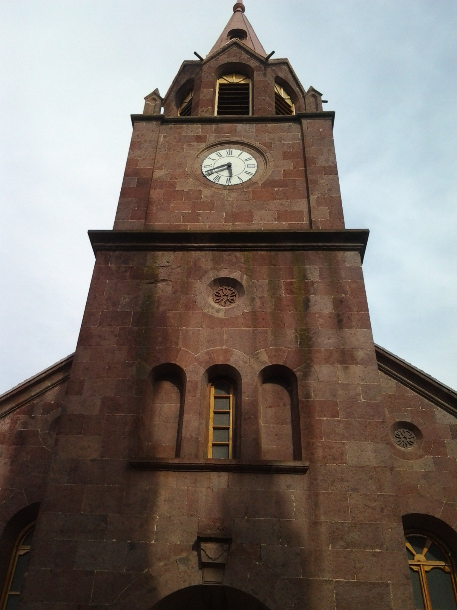 Church (Kirche) in Helenendorf (today - Goygol in Azerbaijan)